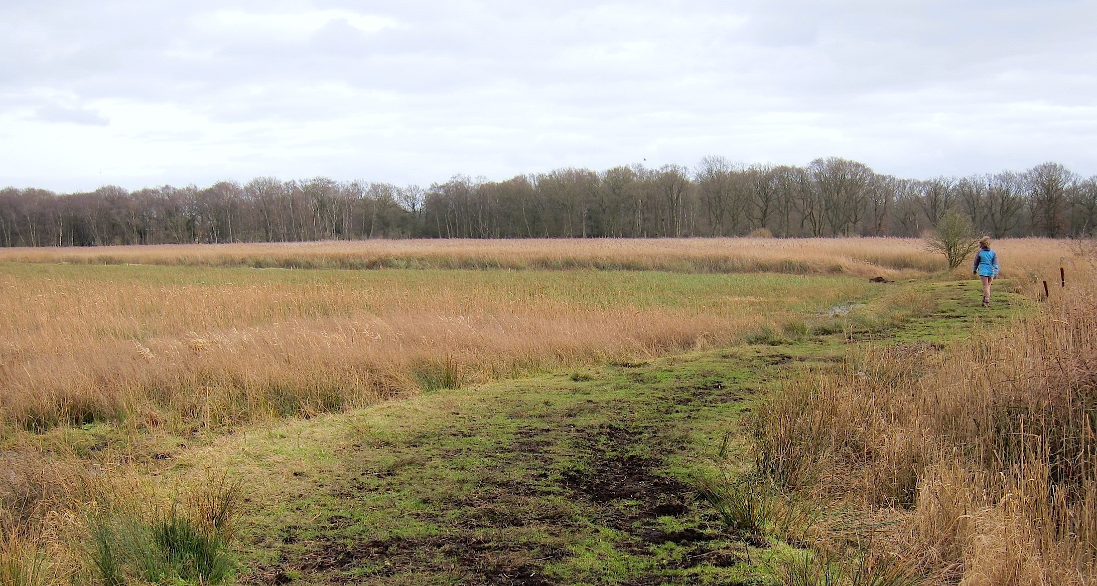 February walking path, Redgrave Fen, Suffolk, UK